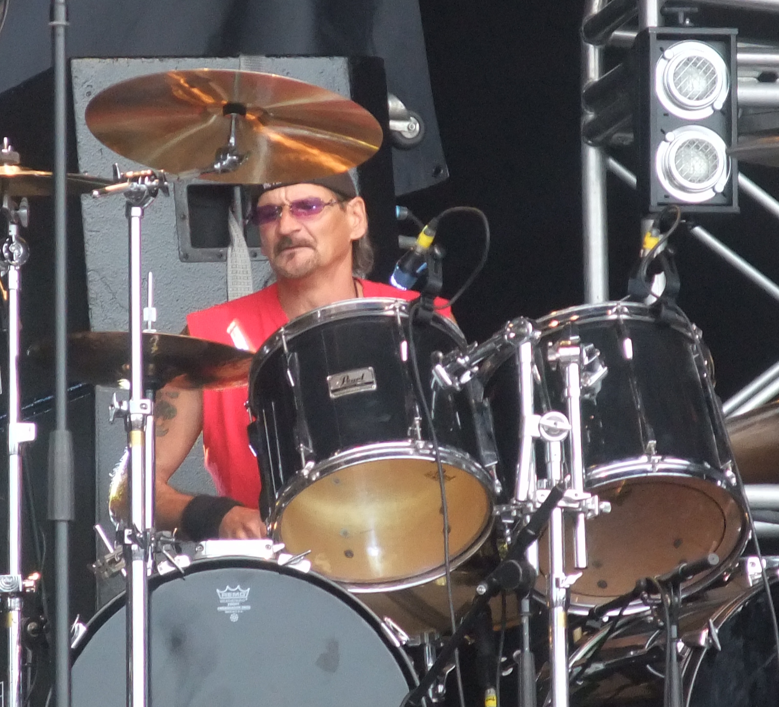 Scott Columbus performing with Ross The Boss at Bloodstock Open Air